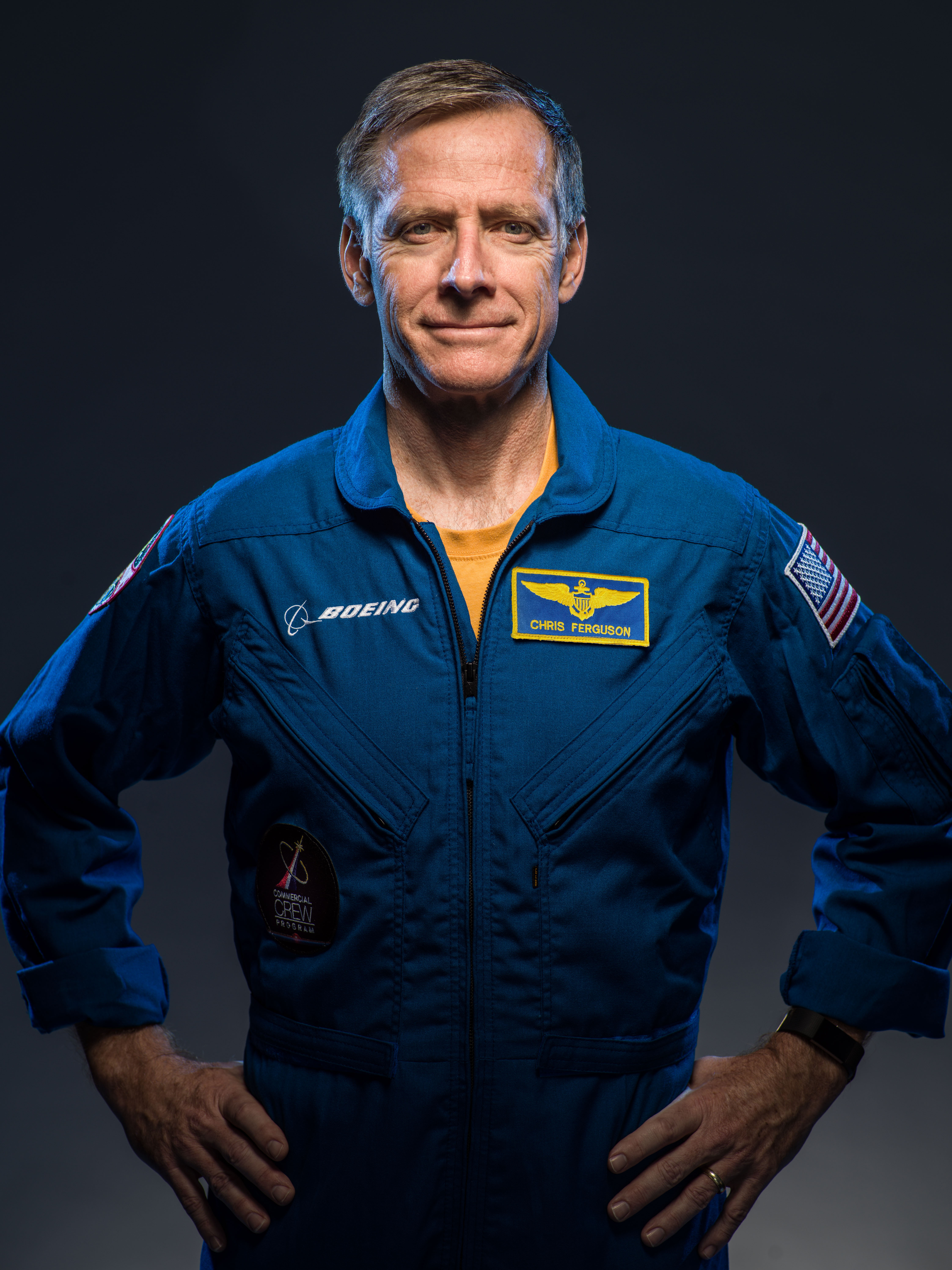 Boeing astronaut Christopher J. Ferguson has been assigned to the first flight of Boeing’s CST-100 Starliner.